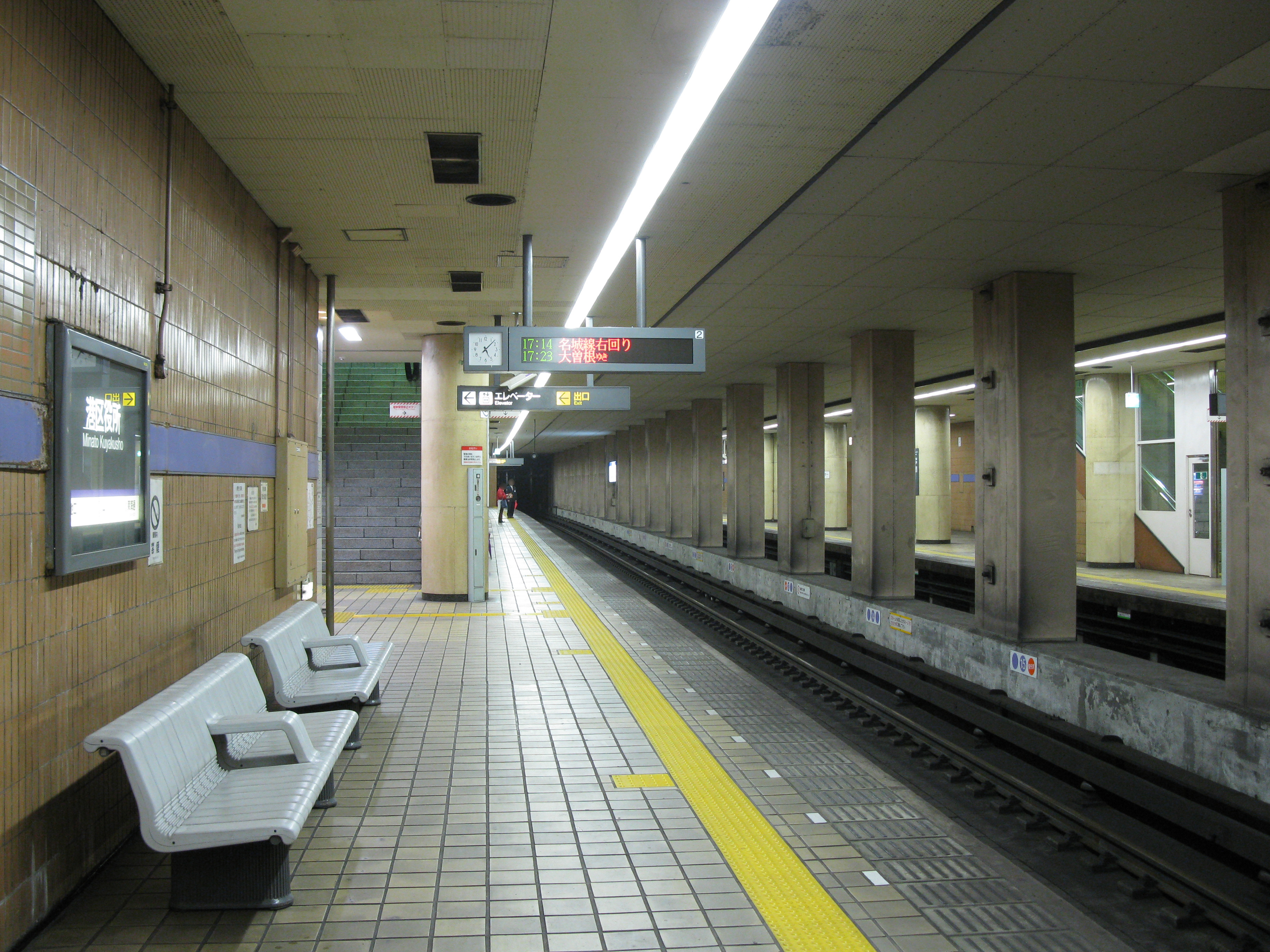 Minato Kuyakusho Station platform (Nagoya Municipal Subway Meikō Line)